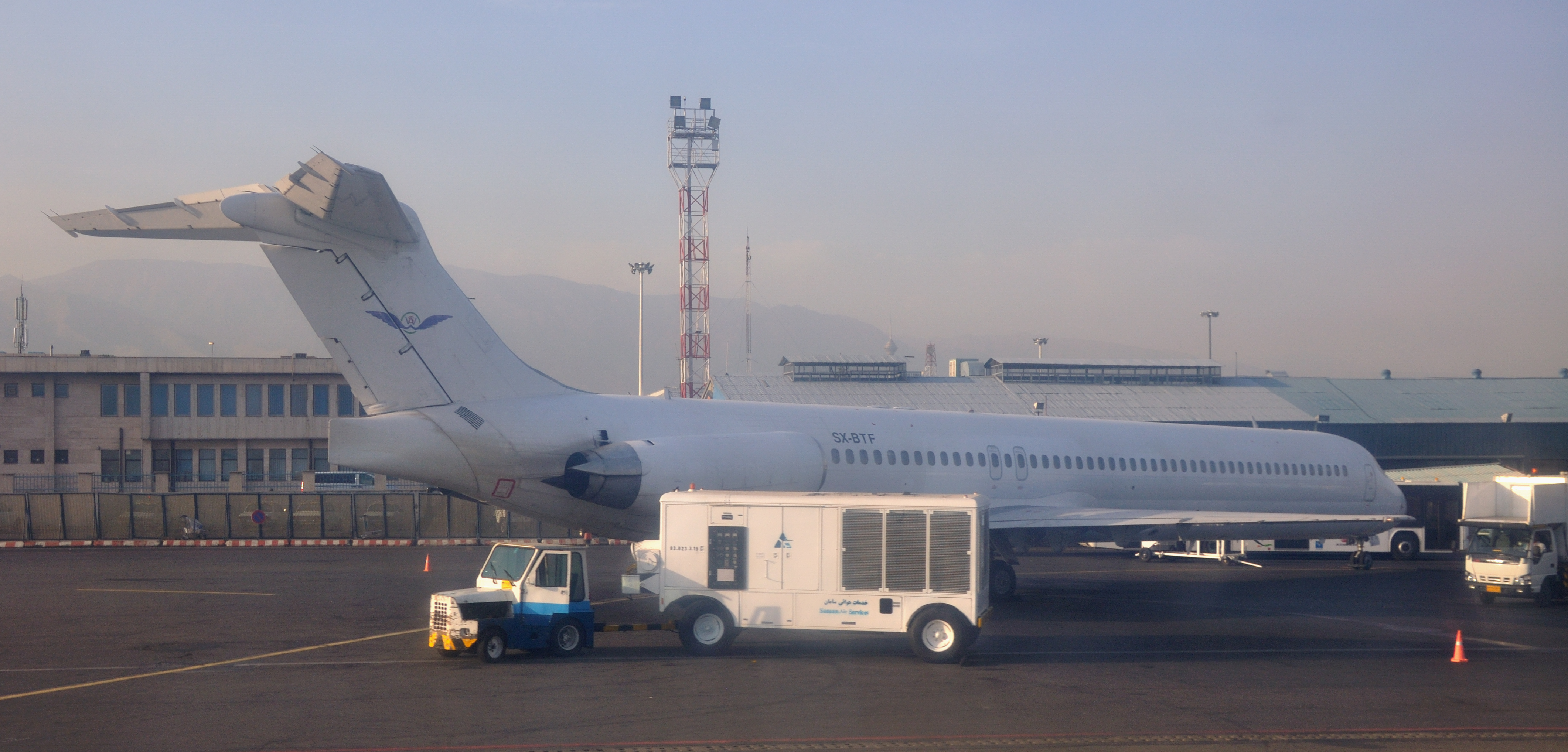 Iran, Greek Sky Wings Airlines MD-83 at Tehran's Mehrabad Airport.